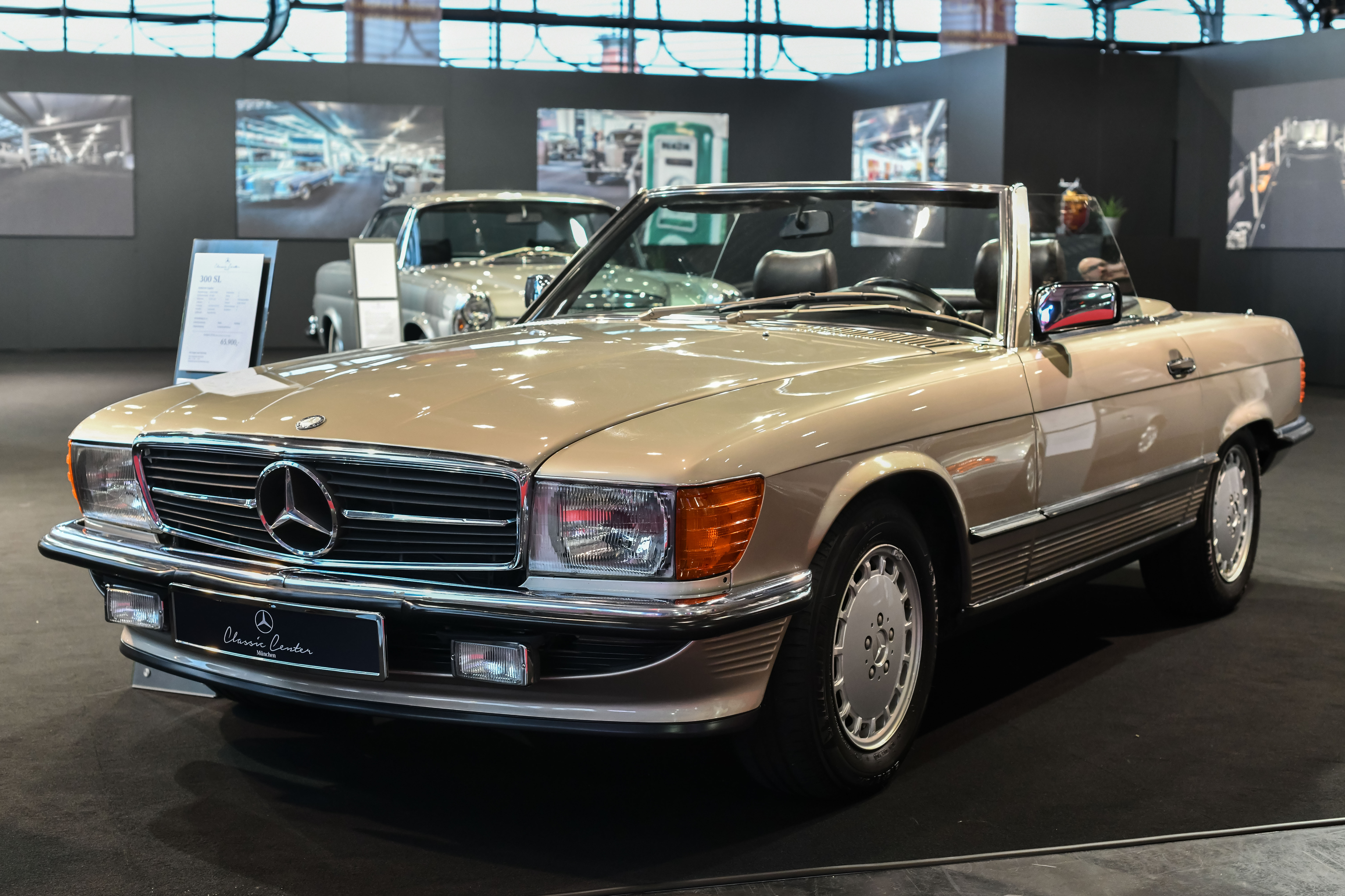 Retro Classics Bavaria Nuremberg 2018, Picture shows: Mercedes Benz 300SL Type R107